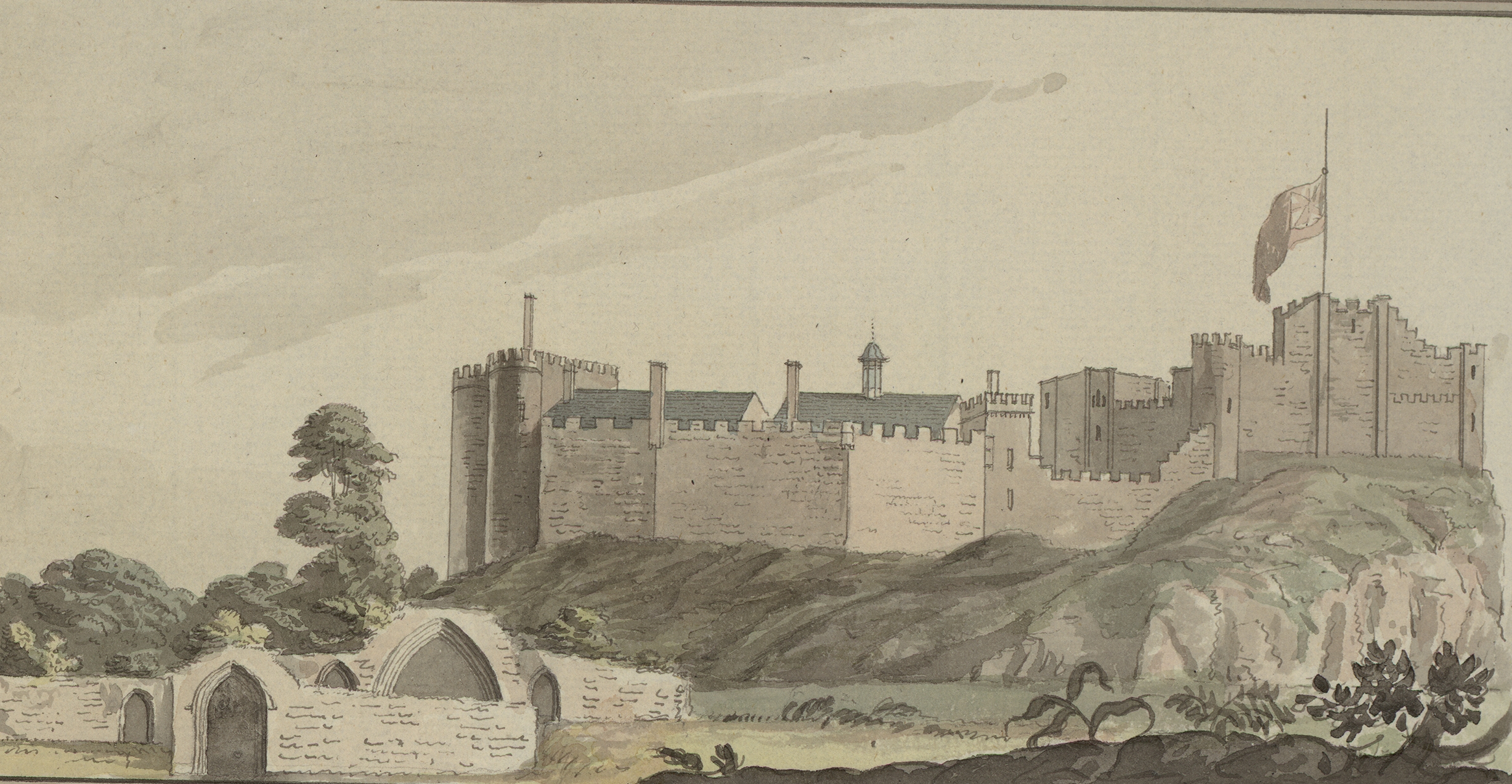 An image from a set of 8 extra-illustrated volumes of A tour in Wales by Thomas Pennant (1726-1798) that chronicle the three journeys he made through Wales between 1773 and 1776. These volumes are unique because they were compiled for Pennant's own library at Downing. This edition was produced in 1781. The volumes include a number of original drawings by Moses Griffiths, Ingleby and other well known artists of the period. Thomas Pennant (1726-1798)